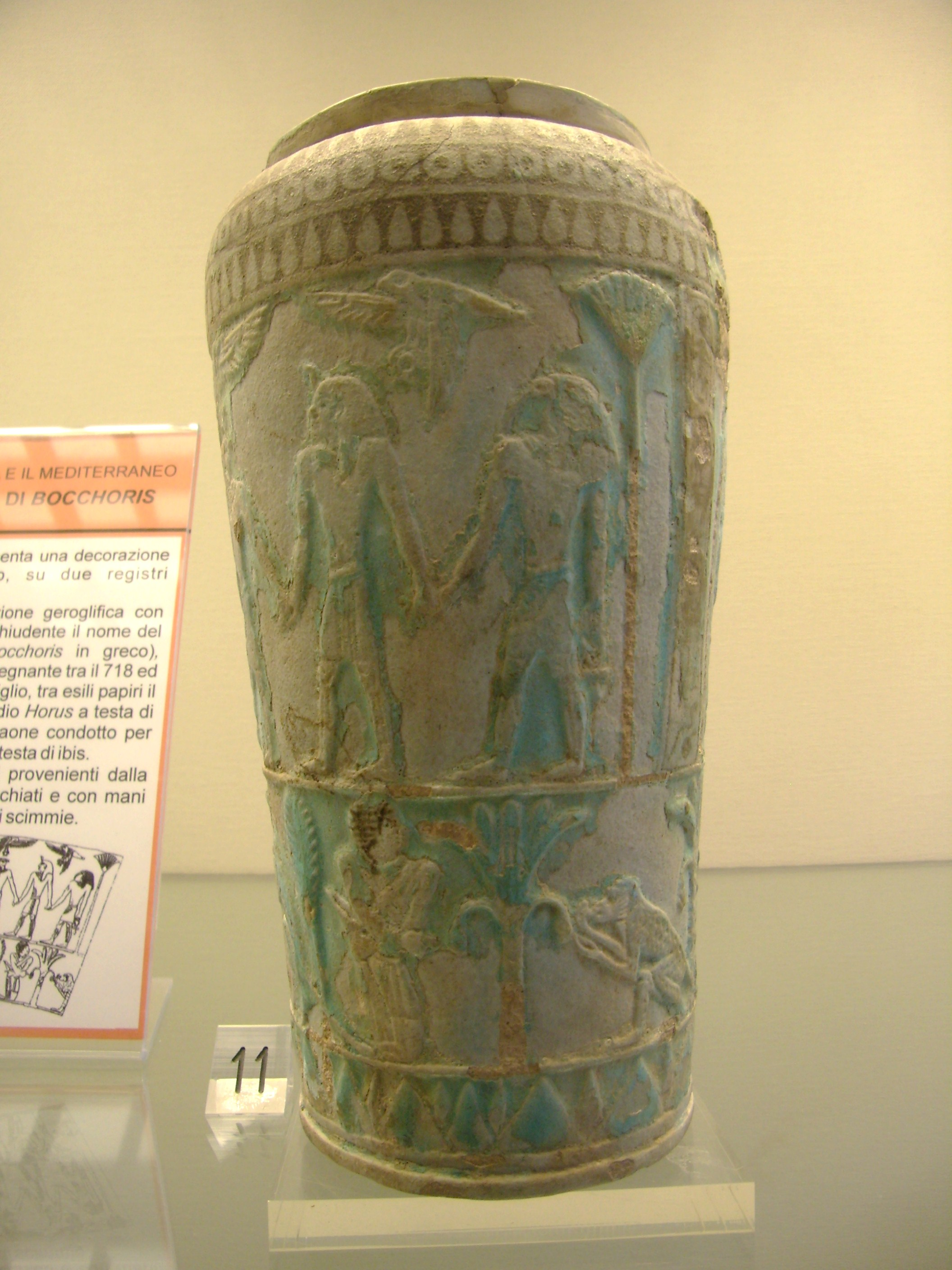 the Bocchoris vase, Tarquinia, National Museum